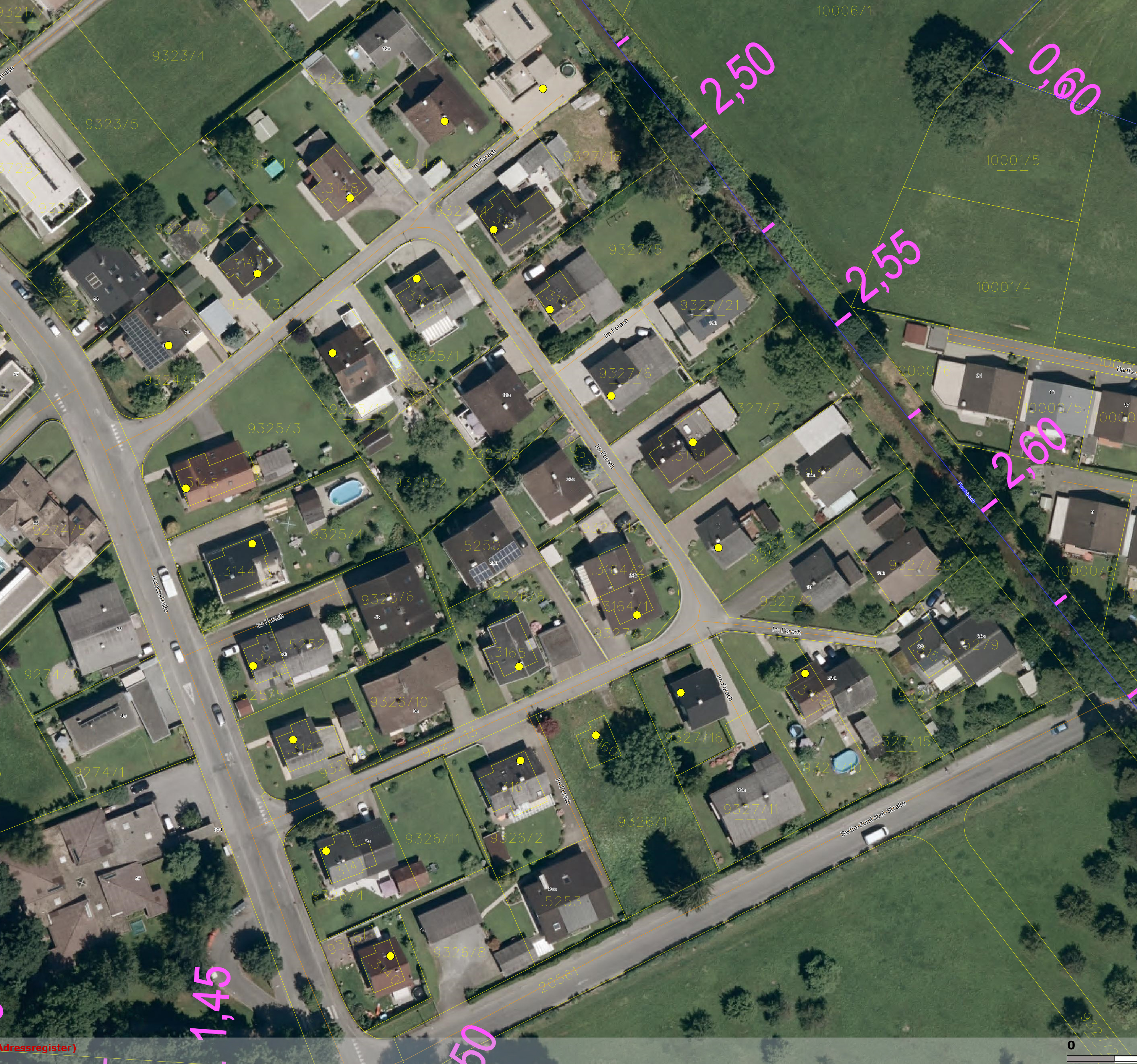 "Siedlung Im Forach" (Housing estate / worker settlement) in Dornbirn (Vorarlberg, Austria). Country Vorarlberg - . Open Government Data Vorarlberg is licensed under a Creative Commons Attribution 3.0 Generic license. Approval for publication.